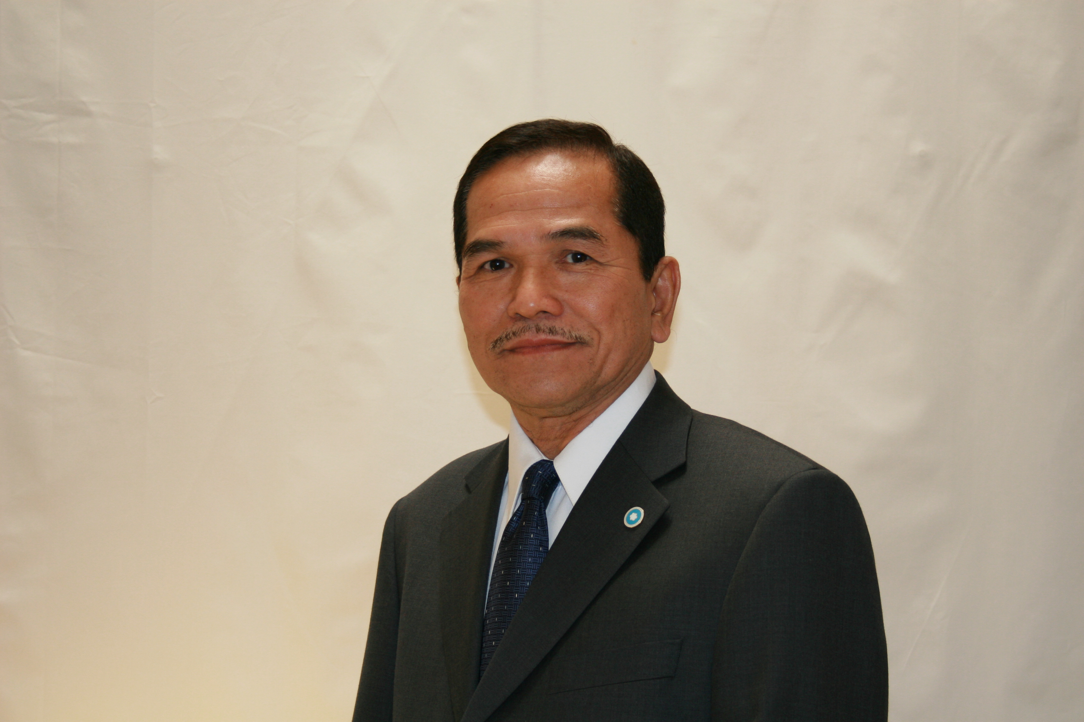 Picture of Nguyễn Kim, former chairman of the Vietnam Reform Party